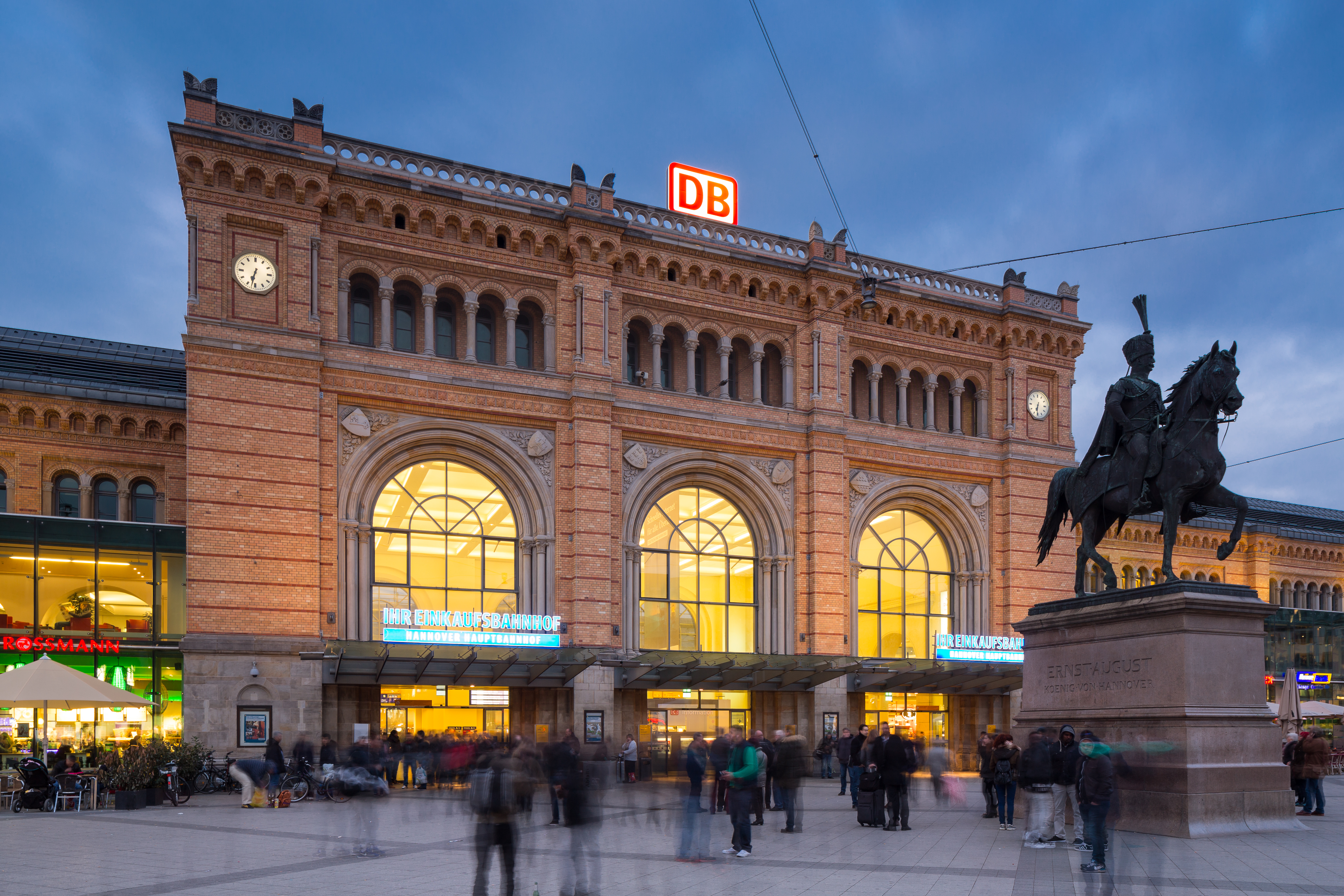 Hannover main station located at Ernst-August-Platz square in Mitte district of Hannover, Germany.